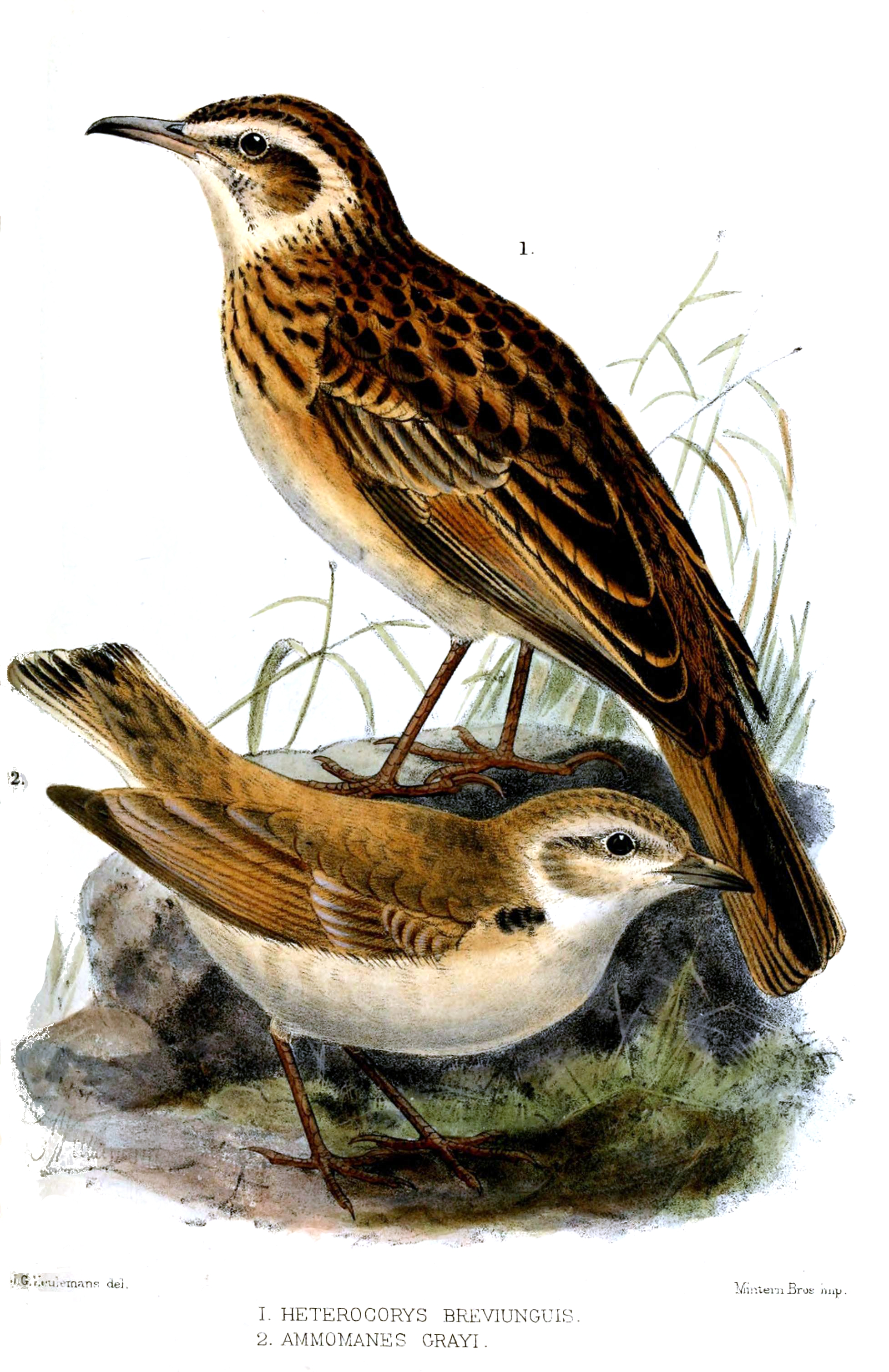 Heterocorys breviunguis = Certhilauda chuana Ammomanes grayi